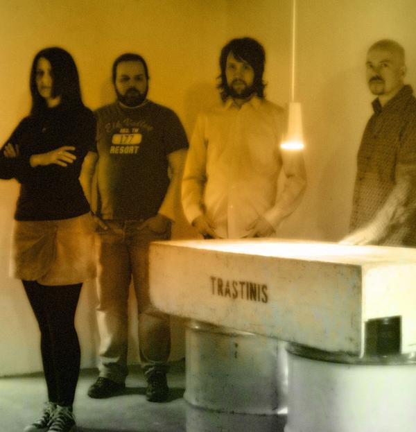 Anekdoten promo